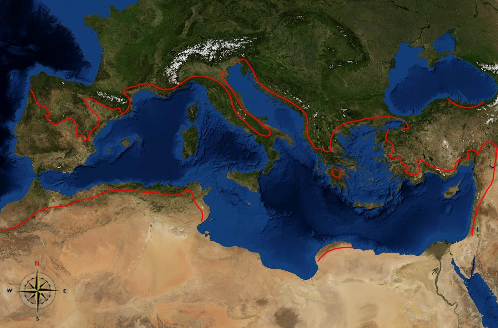 Mediterranean Region as per Olive Trees' Border.